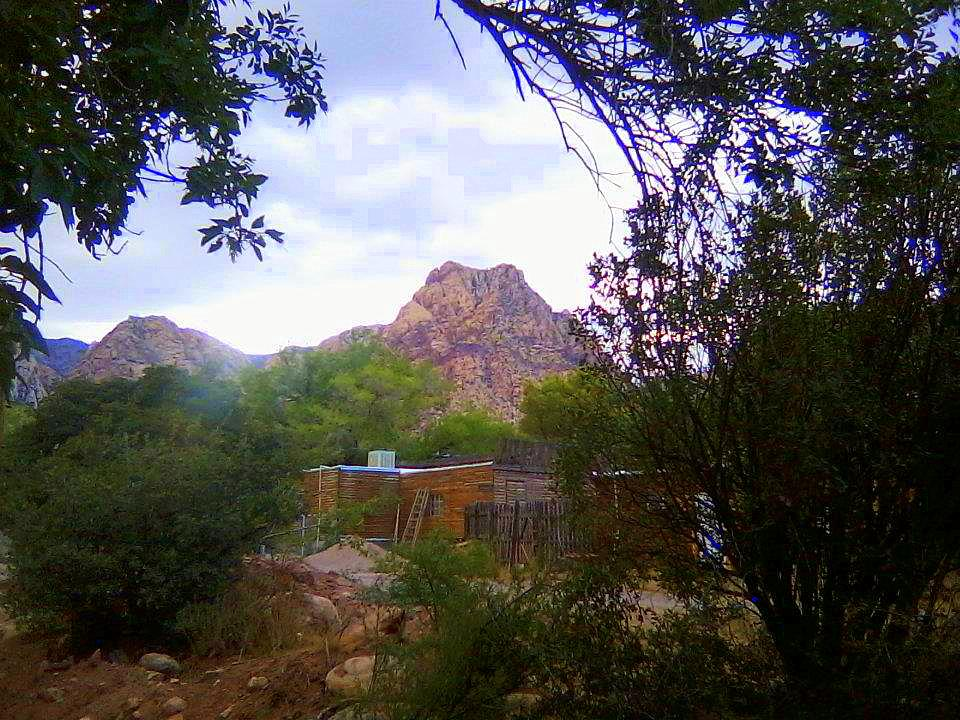 Wooden buildings amidst trees at Bonnie Springs Ranch — an "Old West town" in Red Rock Canyon, Clark County, Nevada. A canopy of branches reach down from the top of the photo, and large rocky mountains can be seen in the background. The sky is mostly overcast.